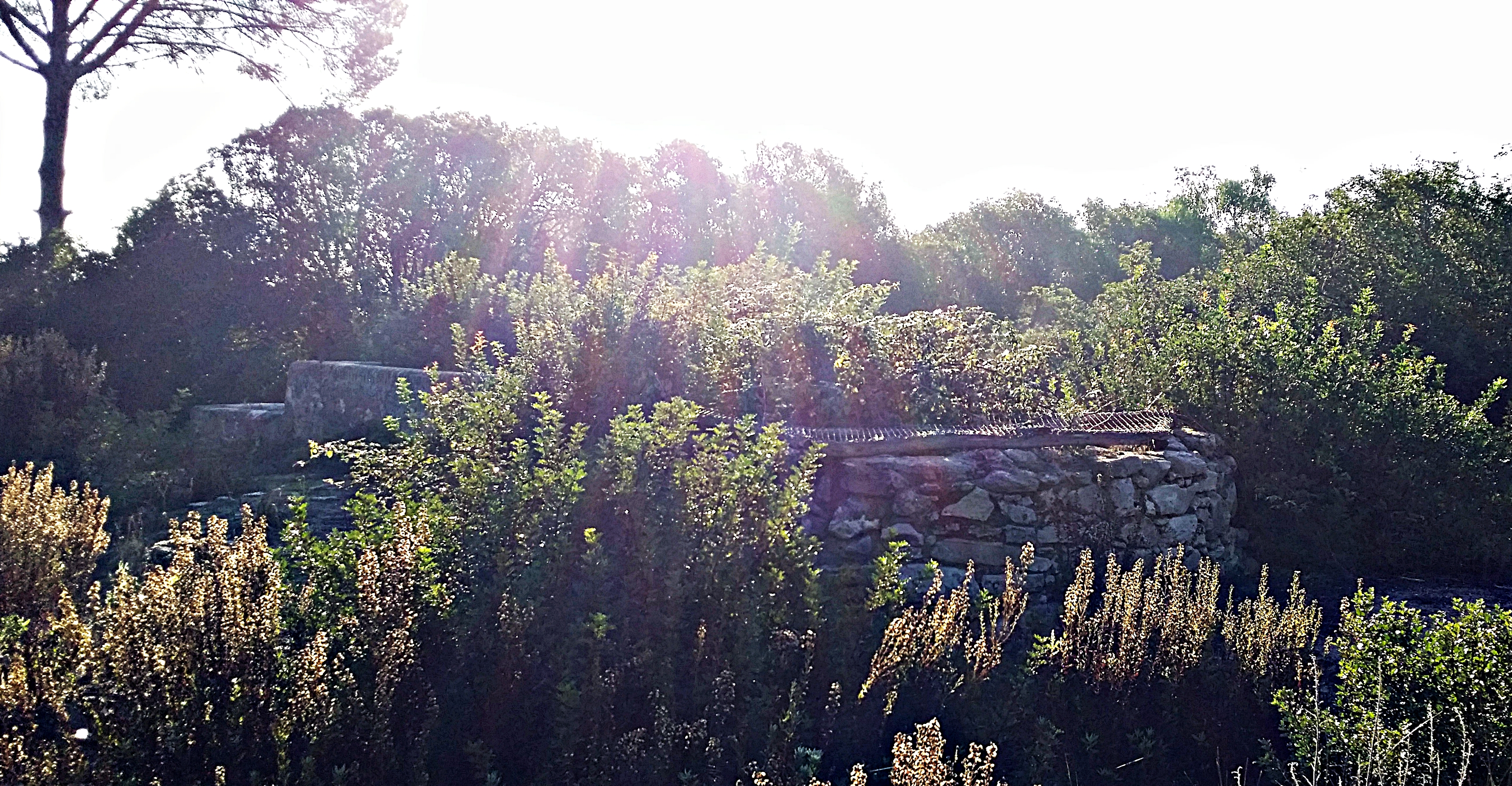 Pozo de los Caveros . La Algaida , Sanlucar